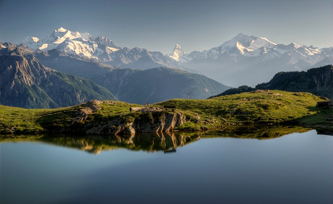 Valais Alps from Riederalp